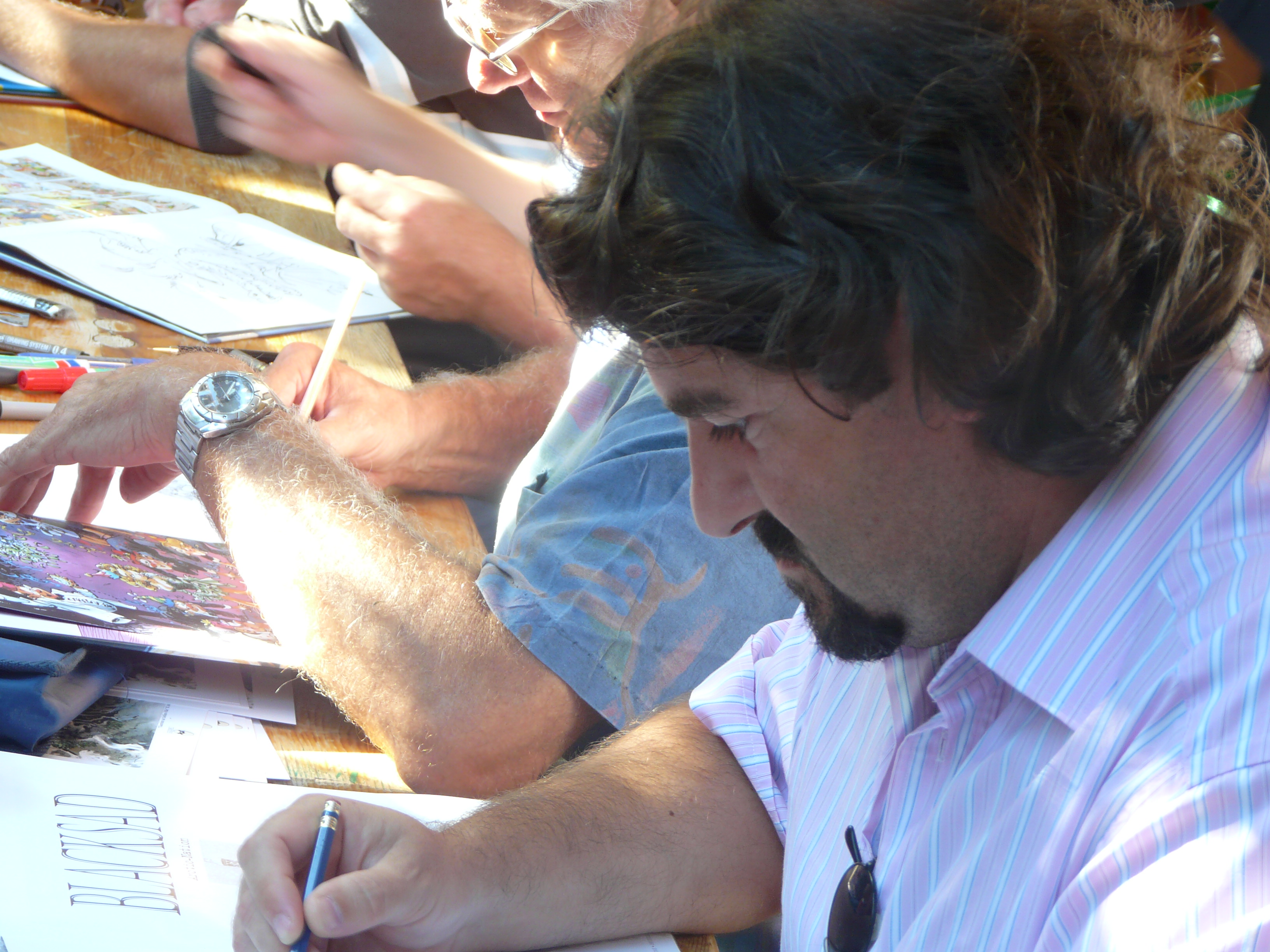 Photographs taken during the International Comic Festival of Sollies Ville, France